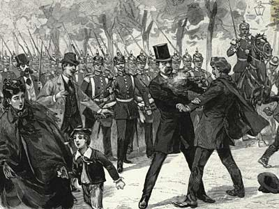 Assassin against Otto von Bismarck